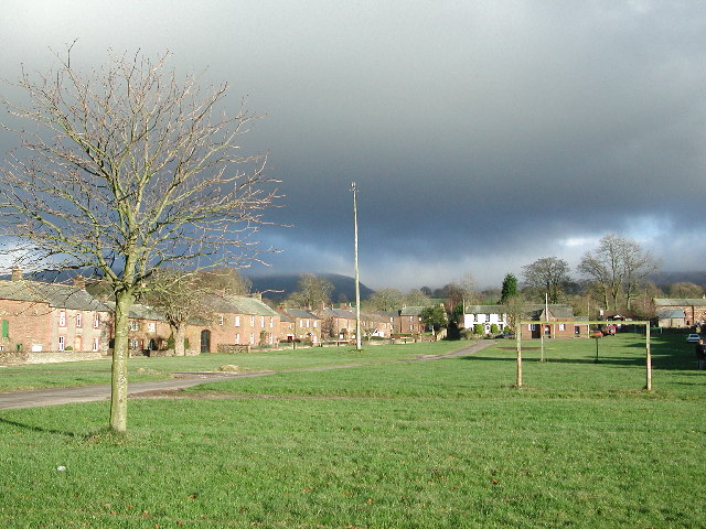 Milburn, Cumbria. Does not show the layout of this village as well as the aerial view but does show the blustery clouds of a Helm Wind coming down from the Pennine Fells.